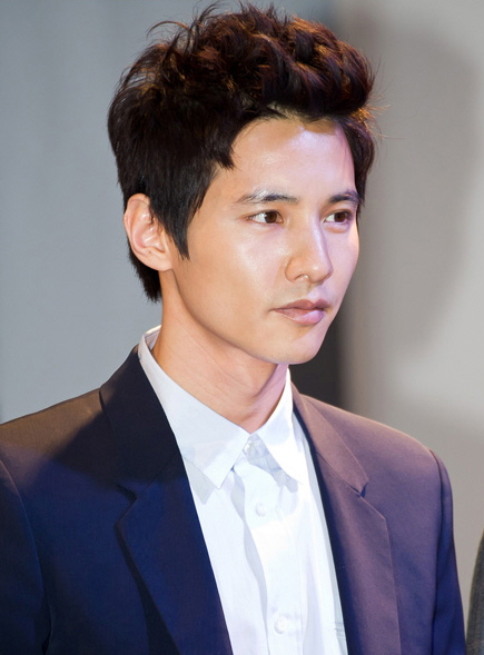 Won Bin at Olimpus Korea PEN E-PL2 launching press conference in Seoul, January 2011